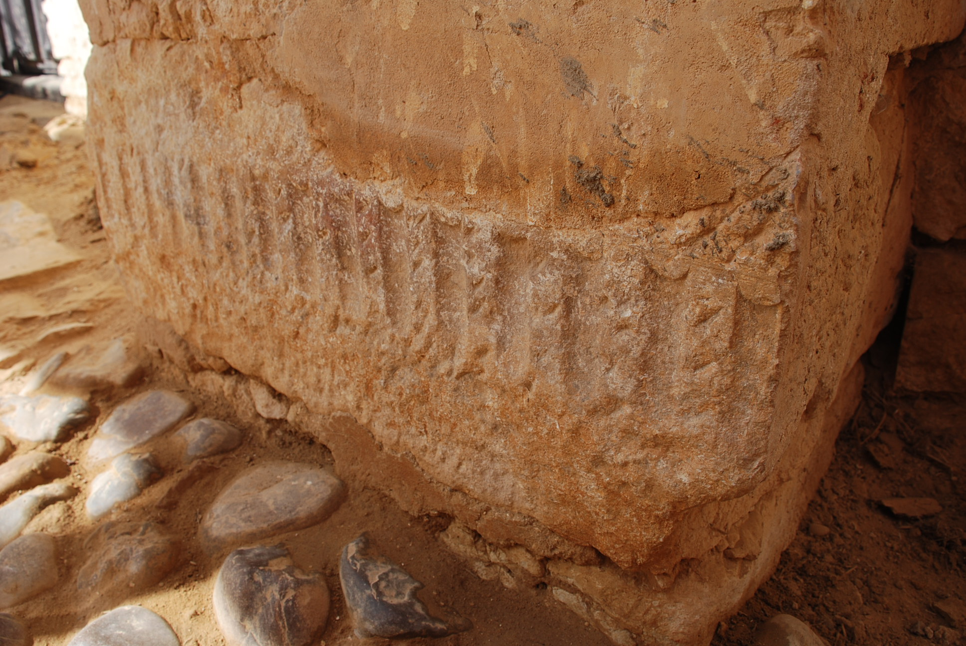 Stone ashlar found in the right buttress of the main door in the Church of Our Lady of Villamelendro. This was covered by a thick layer of lime within the liturgical warehouse amortized in the remodeling works in 2012.